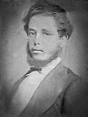 Misael Vieira Machado da Cunha, II baron of Rio das Flores